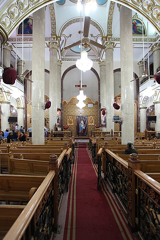 Inside the Church of the Holy Virgin, Sohag, Egypt